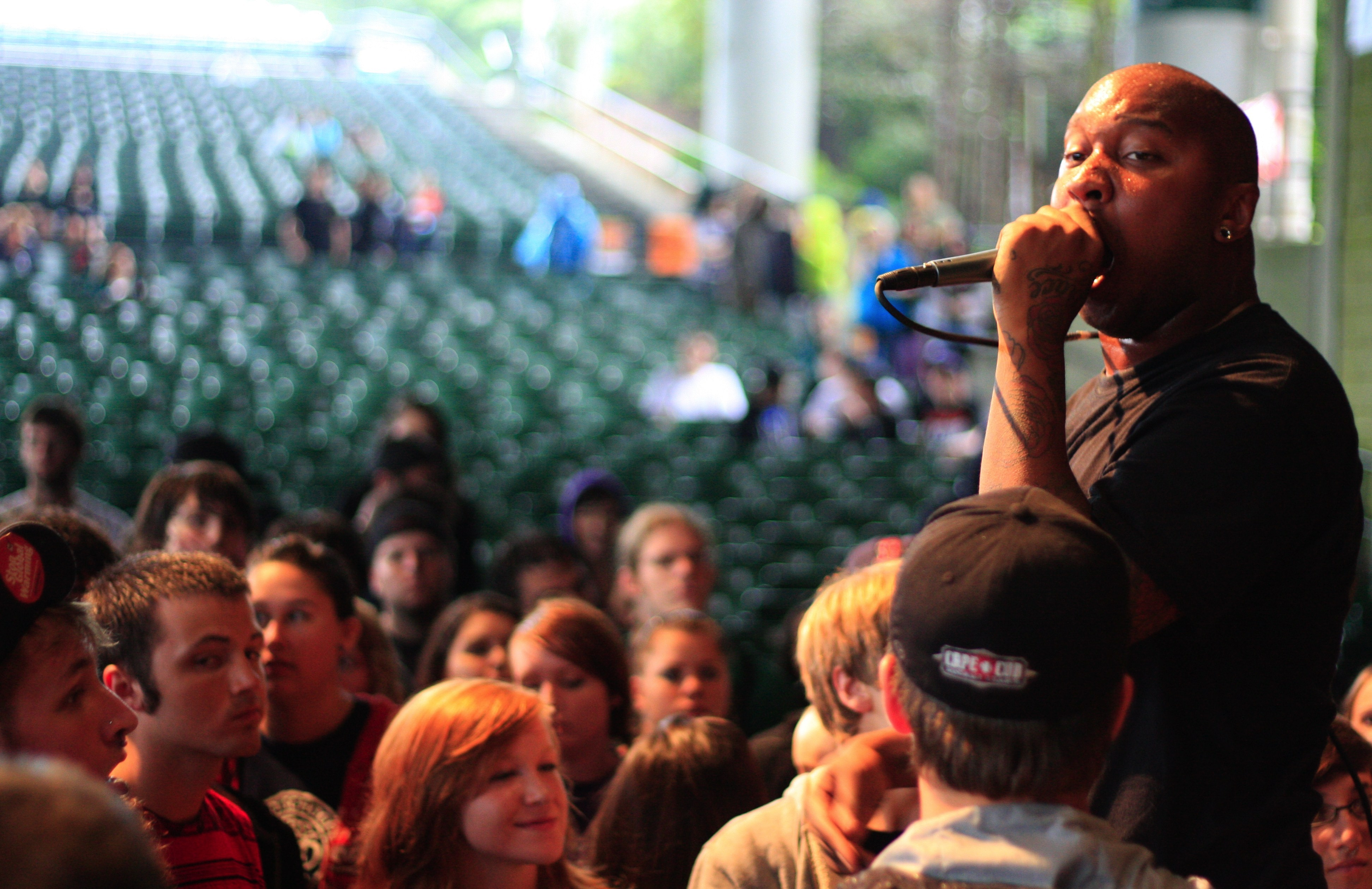 Photo by Tucker Leary.